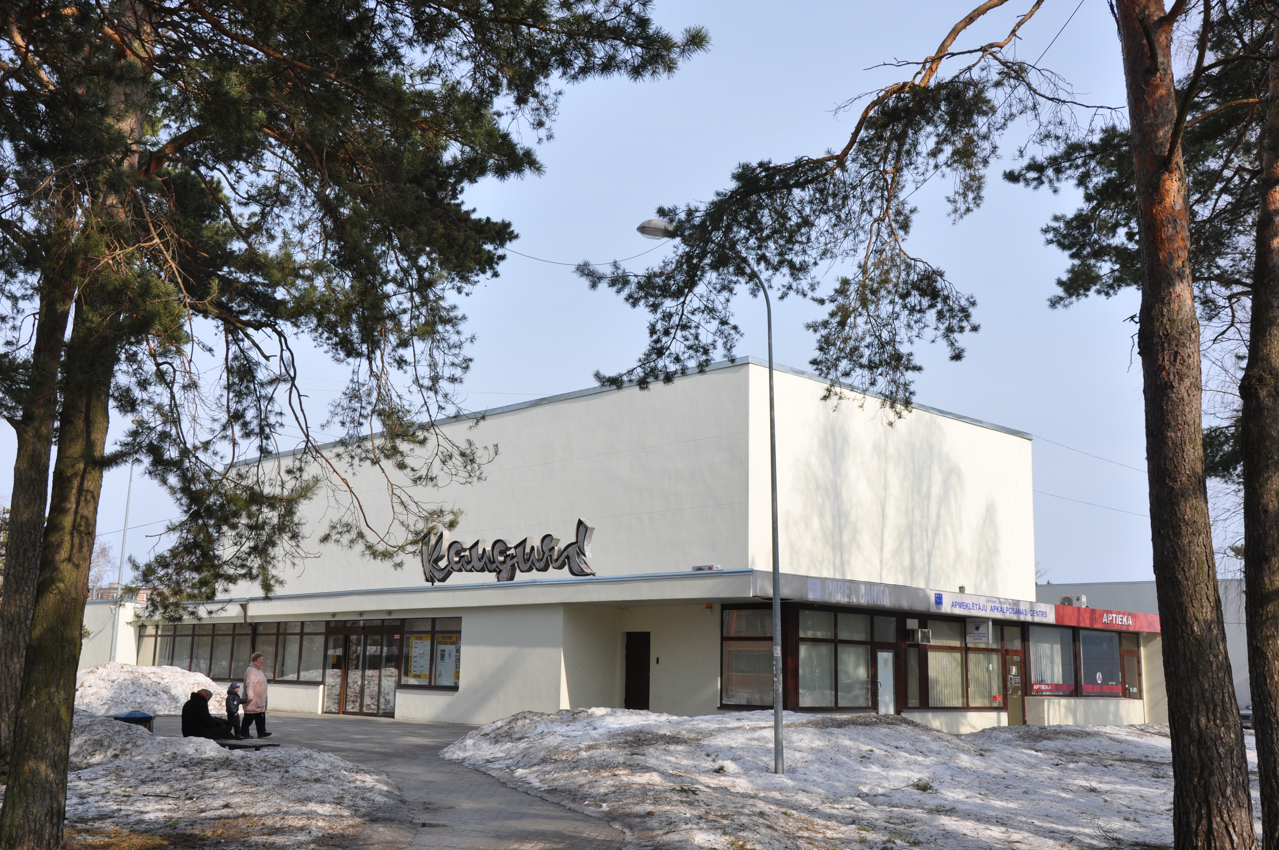 Kauguri culture house